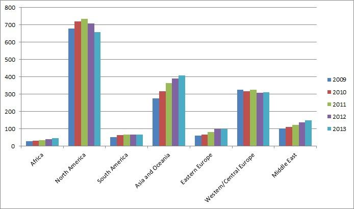 Rüstungsausgaben nach ausgewählten Regionen, 2009-2013 (in Mrd. US-$ von 2013)